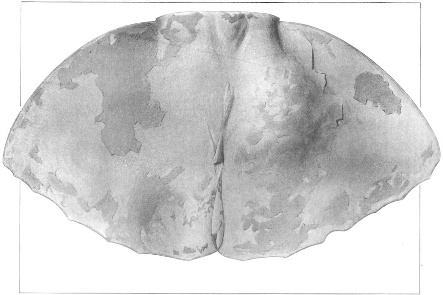 The Eurypterida of New York. Volume 2. New York State Museum Memoir 14, plate 81